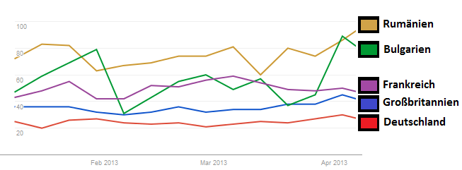 Search interest for K-pop within Europe in early 2013, according to Google Trends. (Original source)